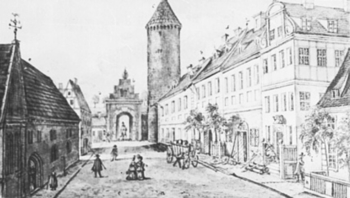 The Spandauer Tor, a town gate of Berlin's Baroque fortifications, in 1700. To the right, the Pulverturm (gunpowder storage tower).